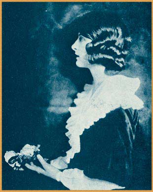 Publicity photo of Martha Mansfield from Who's Who on the Screen